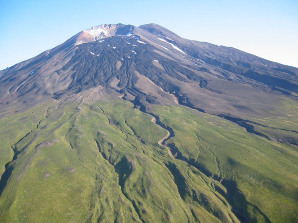 Ravine on the side of Gareloi Volcano in Aleutian Islands. The ravine was created by the volcano's enormous 1929 eruption.